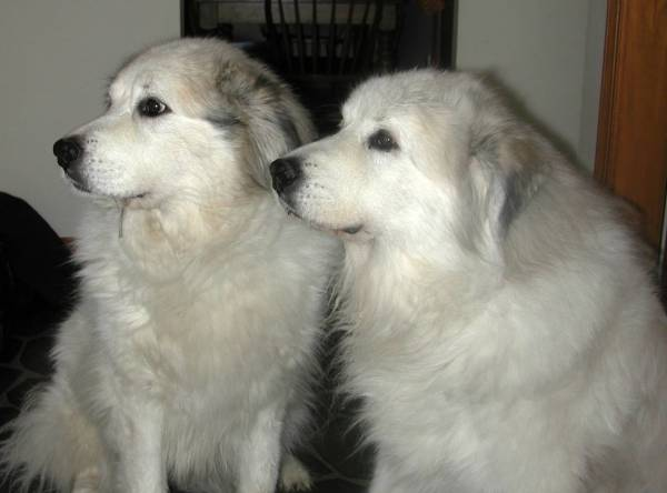 Pyrenean Mountain Dog.